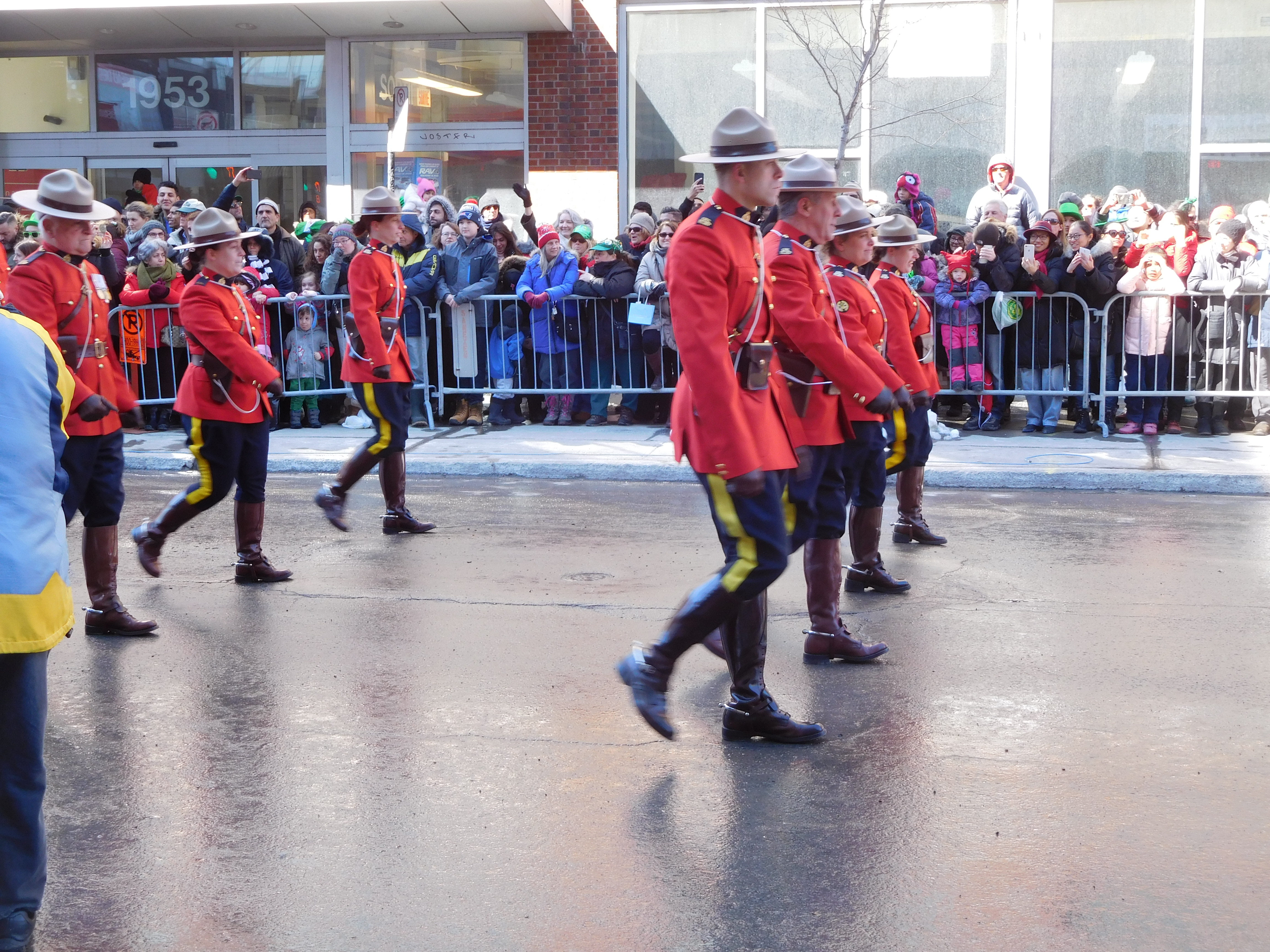 Montreal St. Patrick's Day Parade 2017